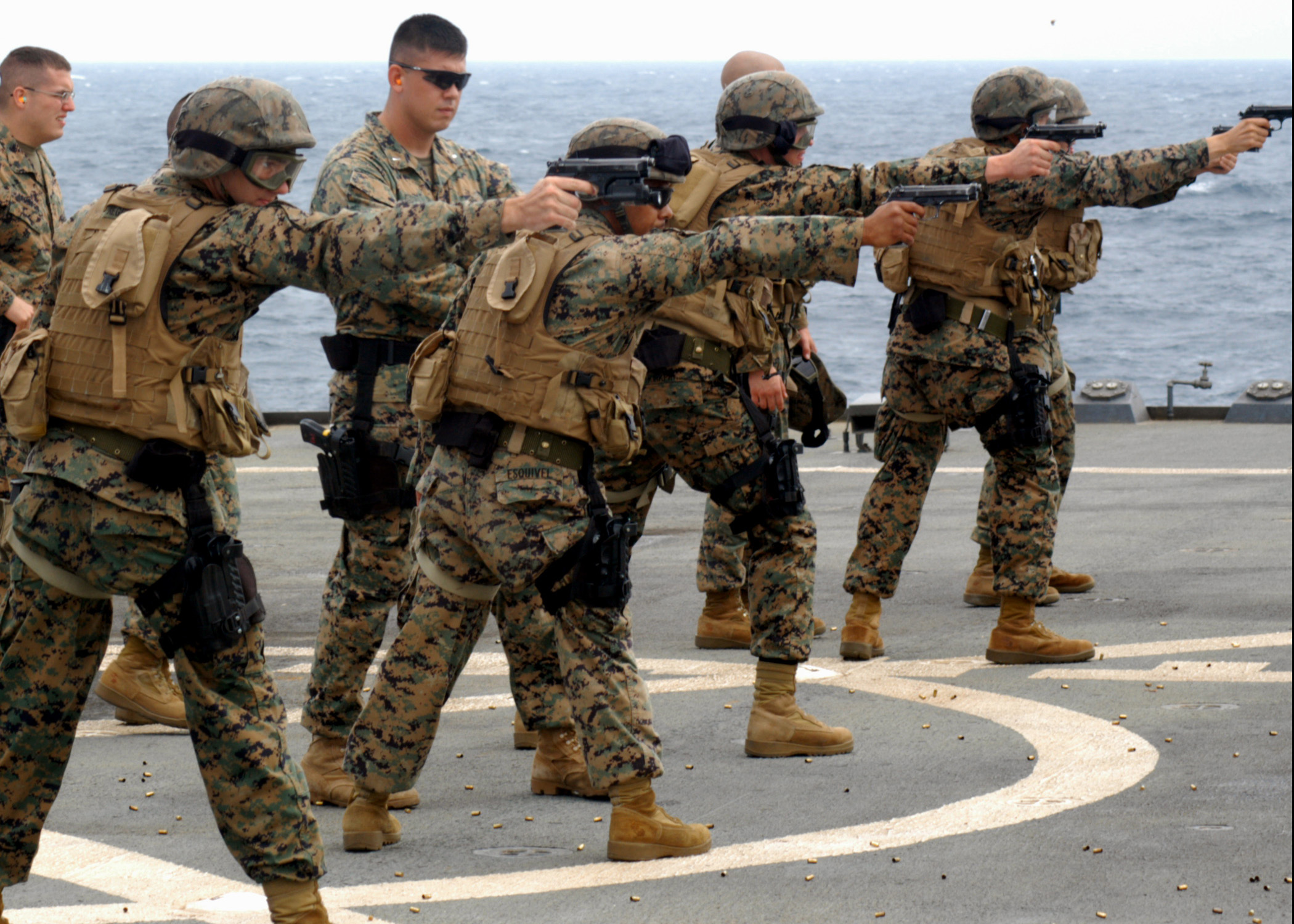 U.S. Marines assigned to the 2nd Fleet Antiterrorism Security Team Company, 3rd Platoon, fire 9mm pistols at targets during small-arms weapons familiarization training aboard the USS Blue Ridge (LCC 19) on March 26, 2005, underway in the South China Sea.